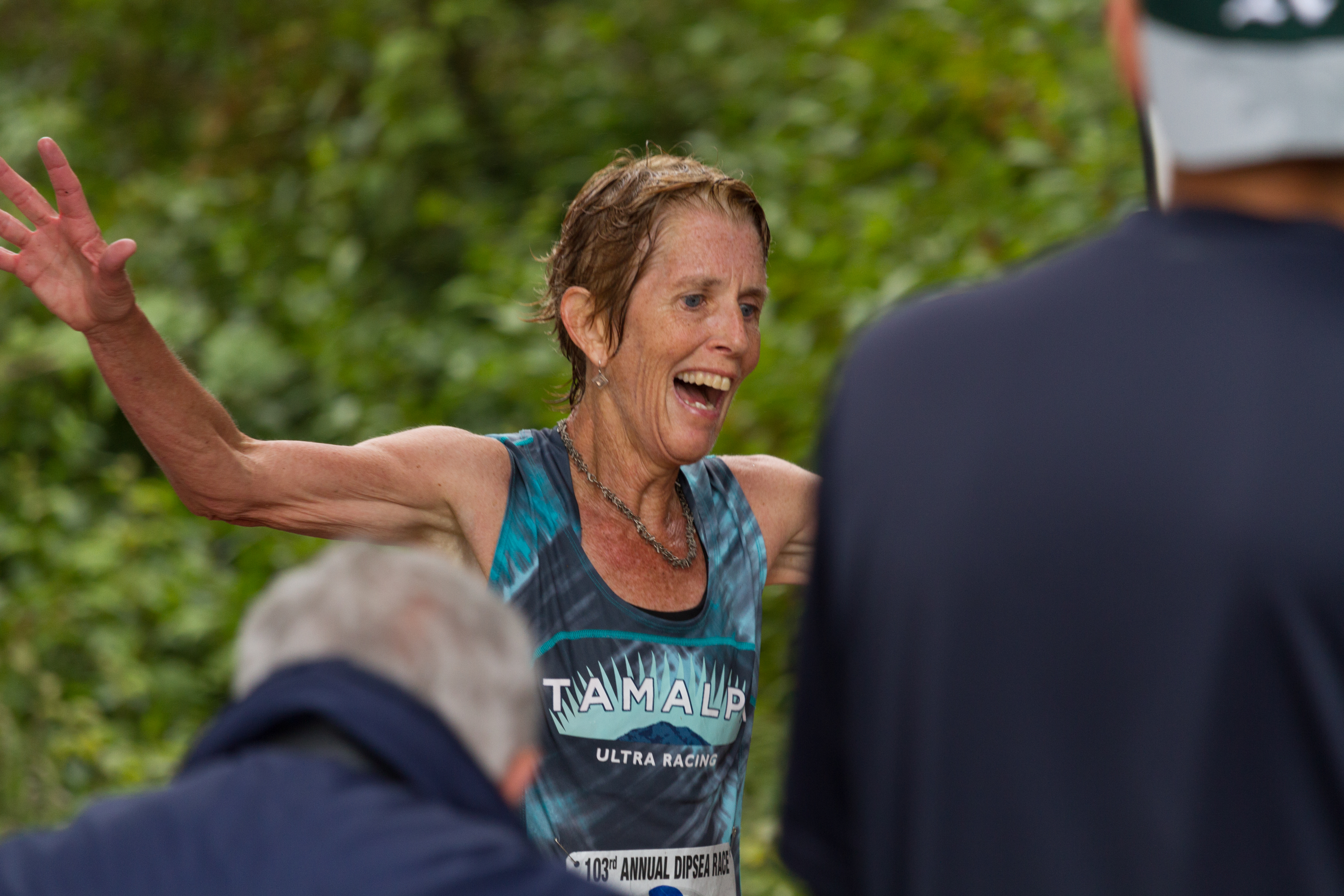 Diana Fitzpatrick, a 55-year-old Larkspur resident winning the 103rd annual Dipsea Race from Mill Valley to Stinson Beach.